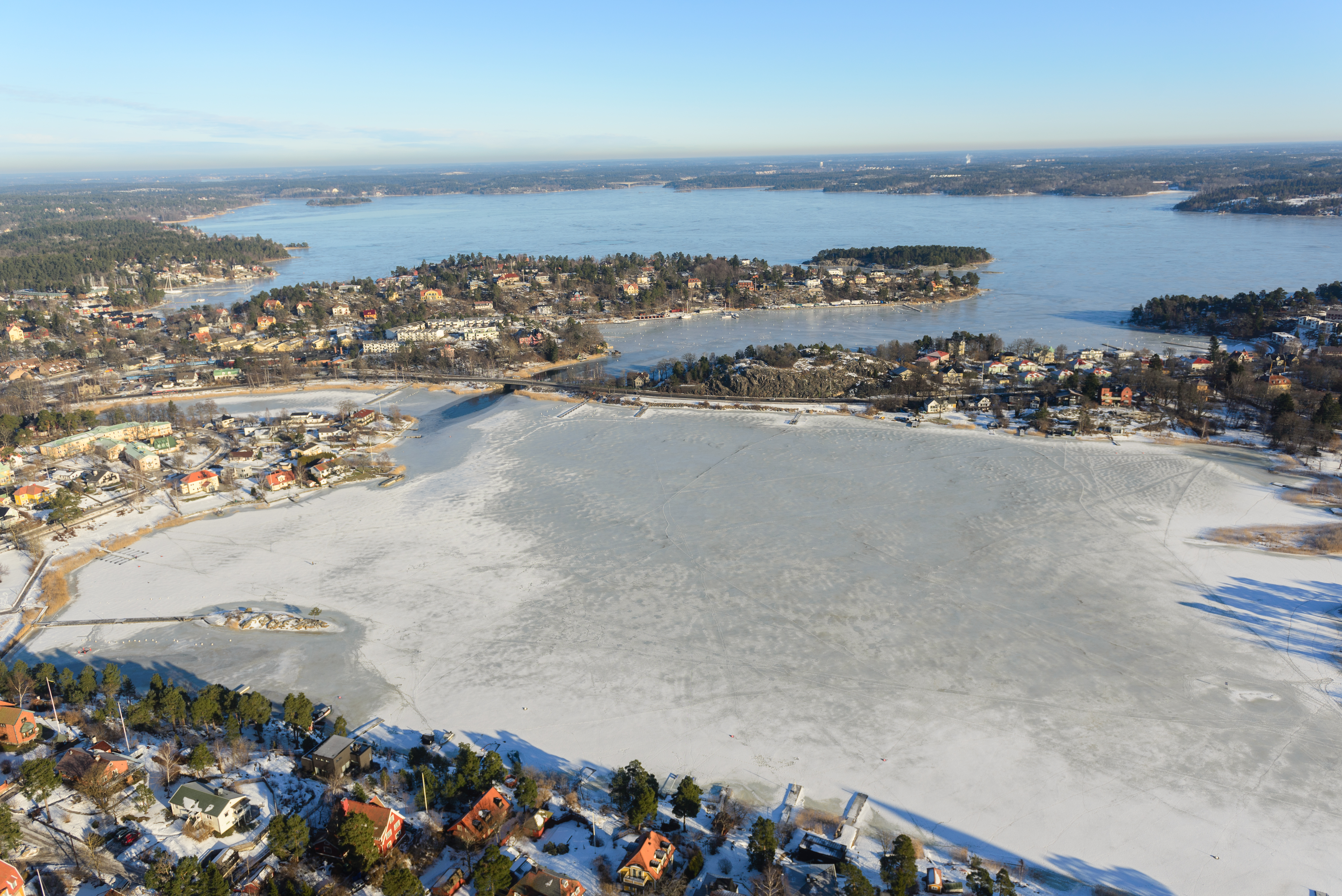 Neglinge med Neglingemaren